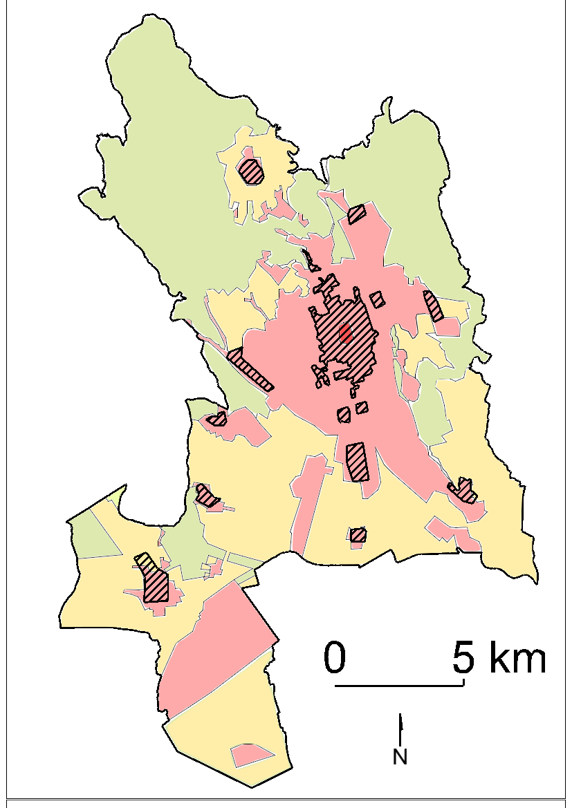 Land use in Kosice